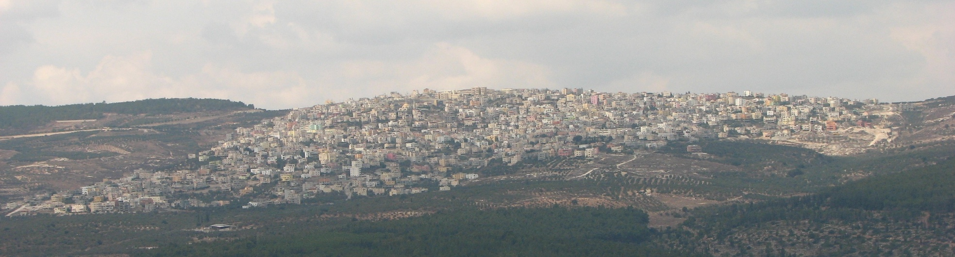 Ein Mahel is an arabic village in the North if Israel, next to Nazareth Illit.